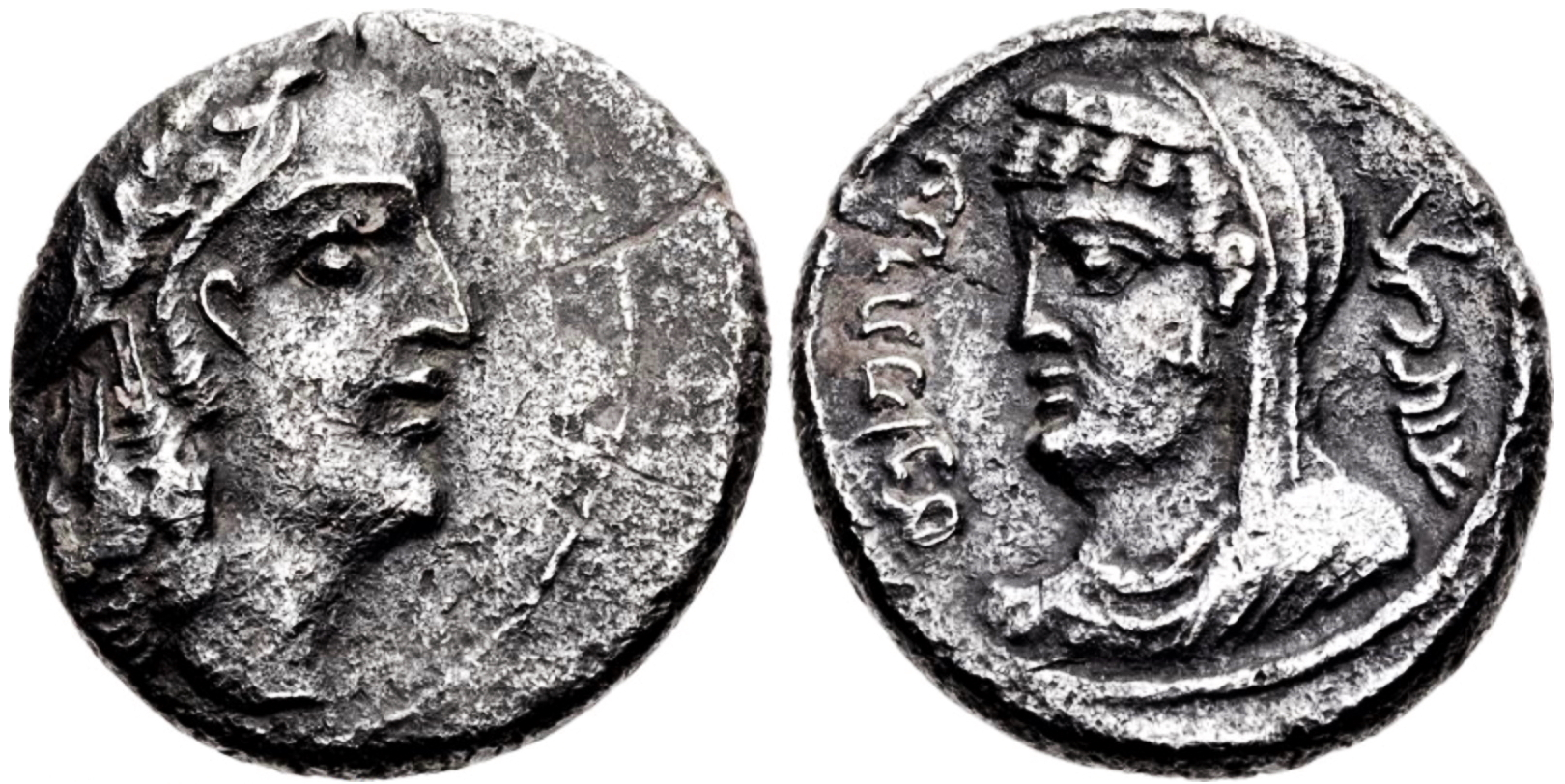 Silver drachm of Obodas II with Hagaru from 14 BC (17.5 mm, 4.49 g)